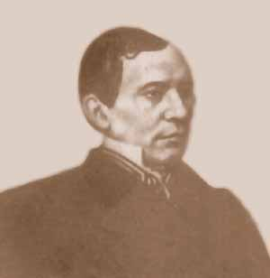 Minister Alexander V. Golovnin